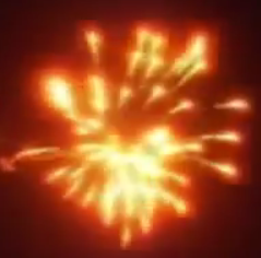 Rockets